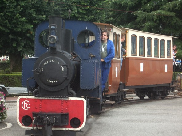 The steam locomotive Decauville n°869, built in 1914 and nicknamed « La Bouillote », in Aix-les-Bains on August 27, 2005 for the meeting "Navig’Aix".